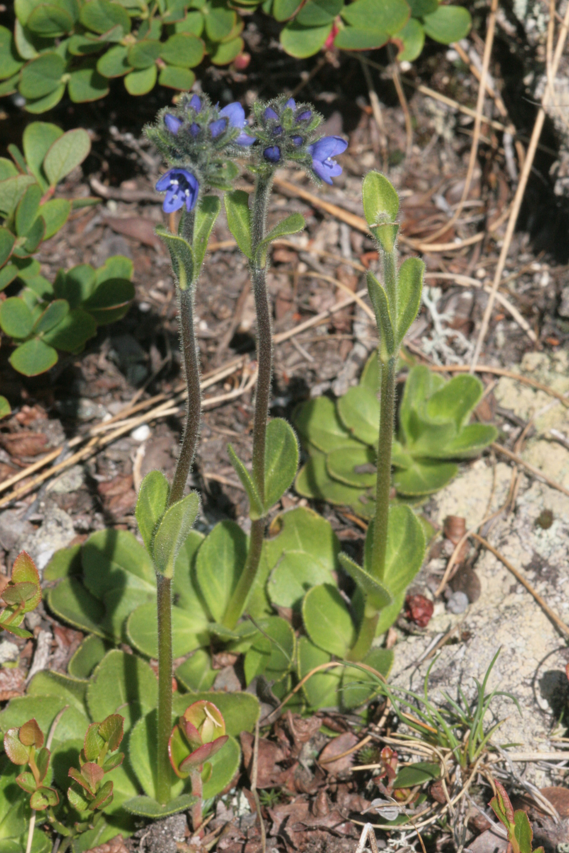 Veronica bellidioides